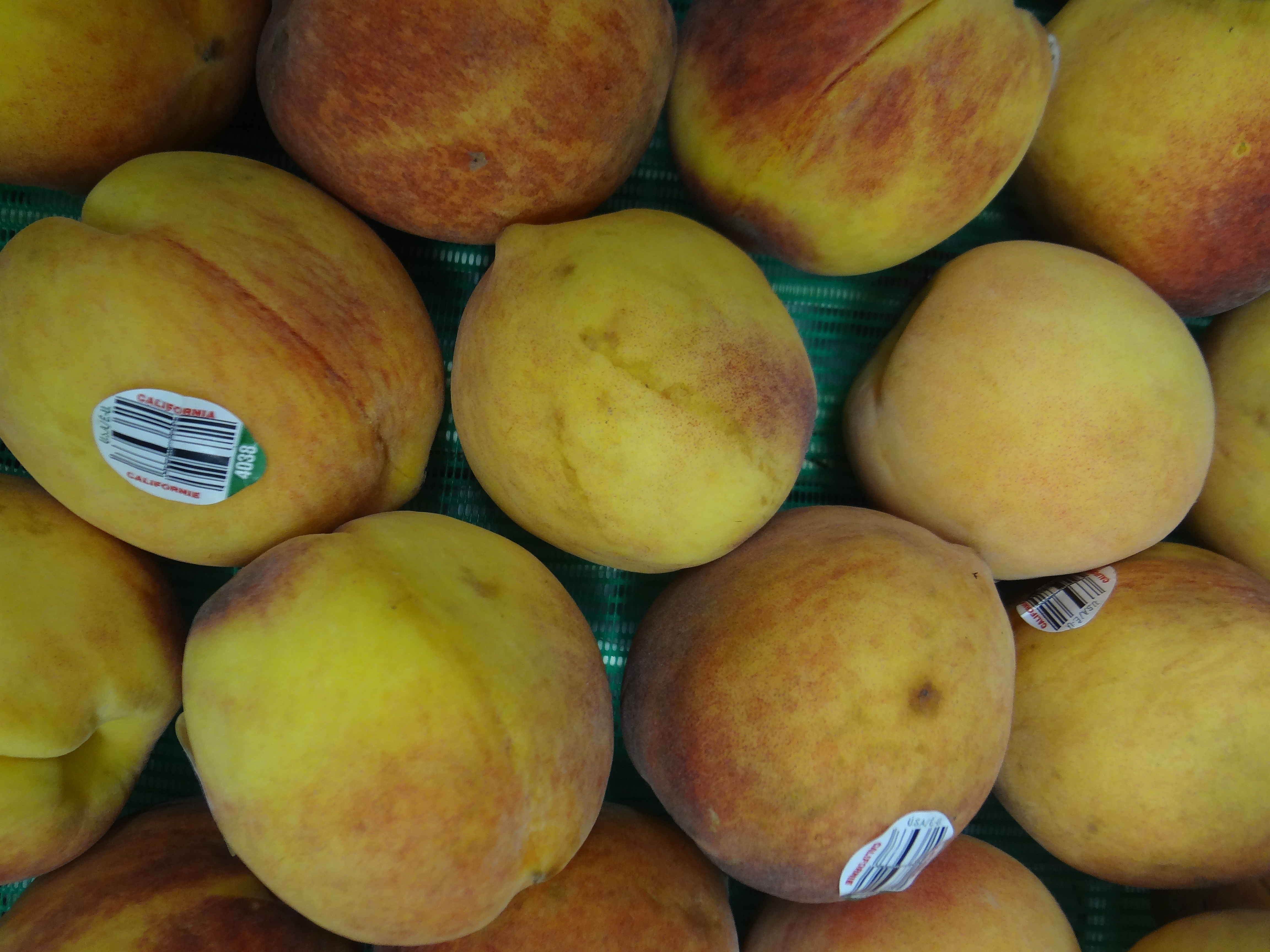 (Prunus persica) California is the largest producer of peaches, plums and nectarines. Most are grown in the San Joaquin Valley, just south of Fresno, Photography by David Adam Kess